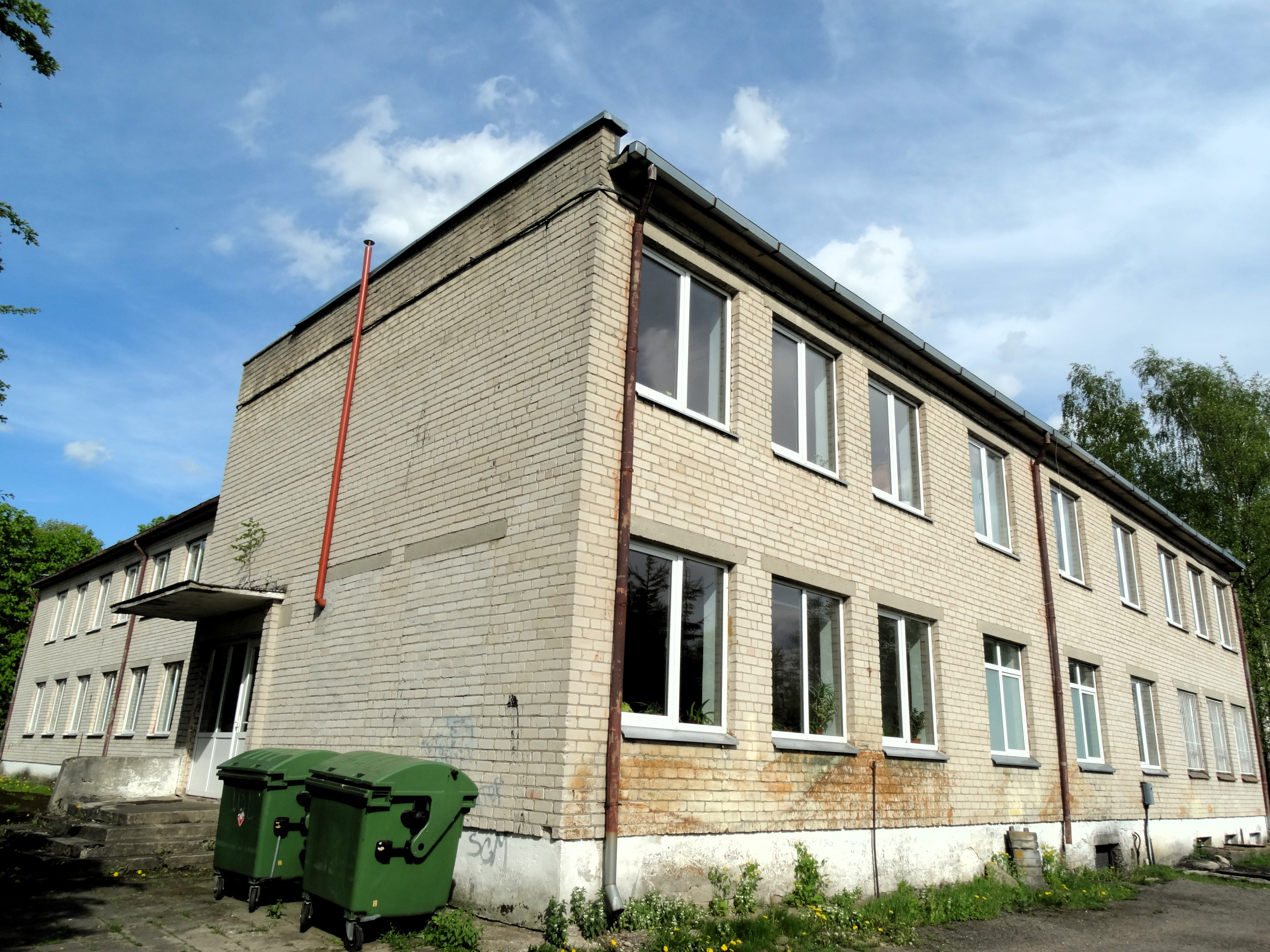 Basic school, Dūkštos, Lithuania